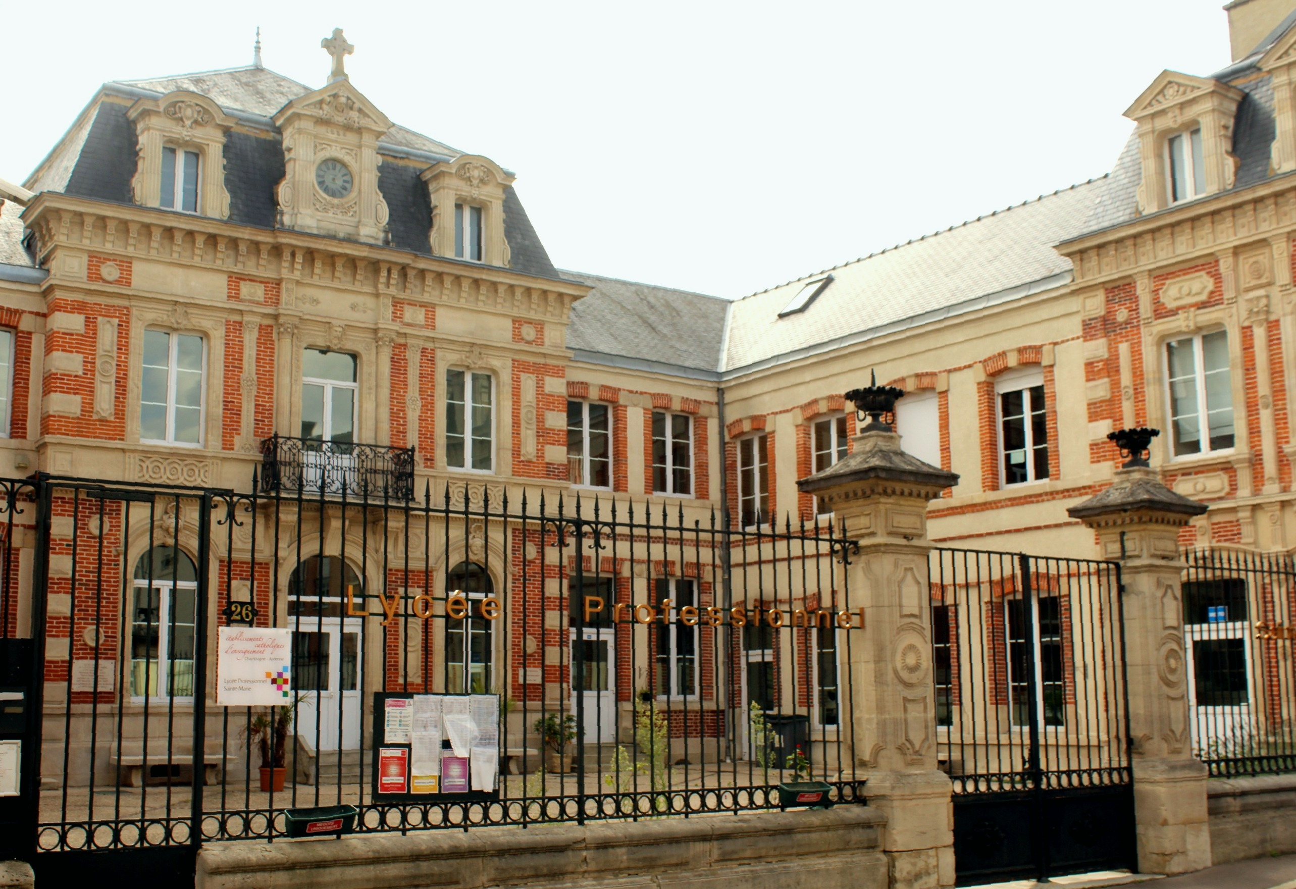 Épernay, the Lycée Sainte-Marie